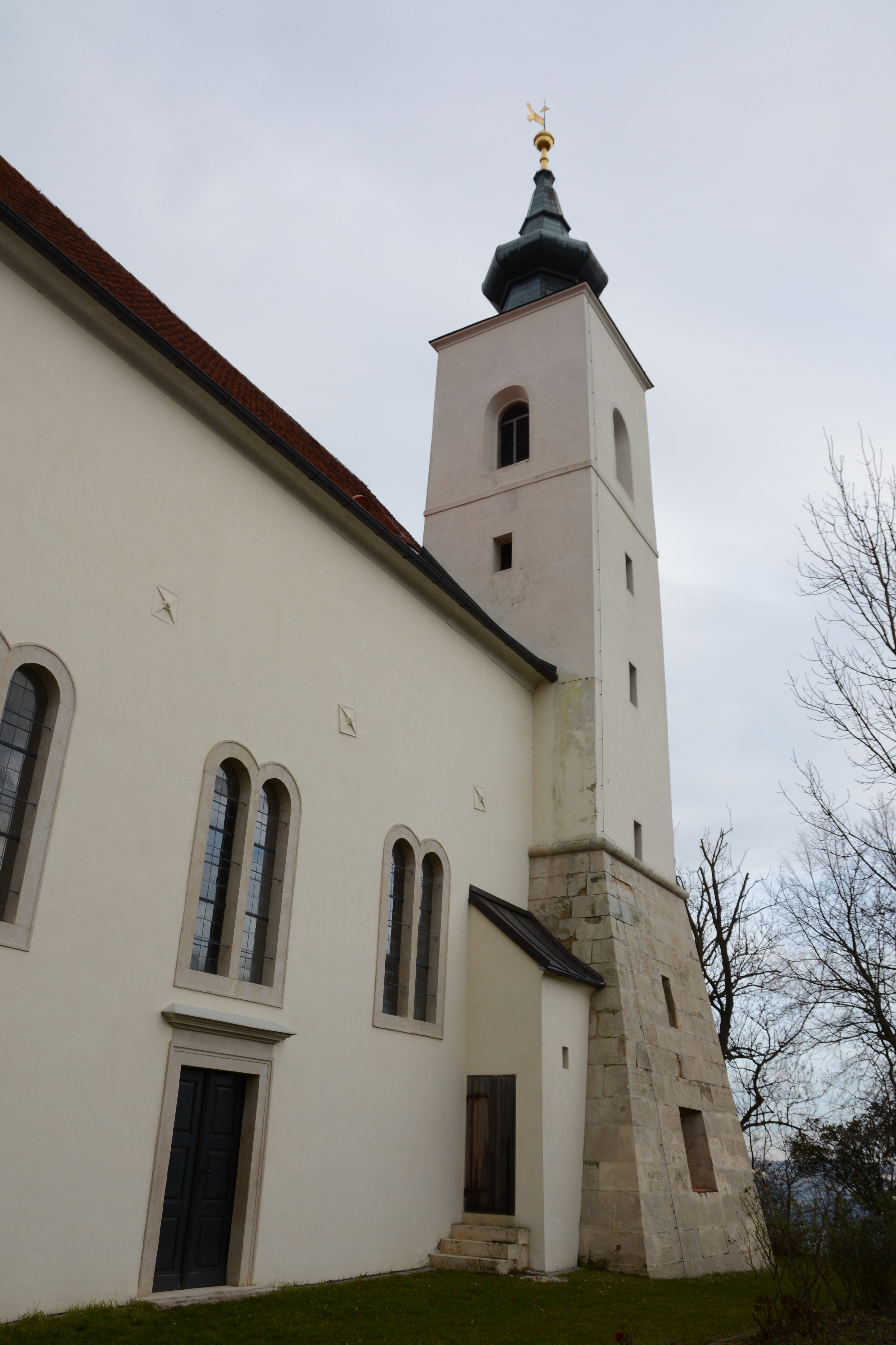 St. Florian Church Straden